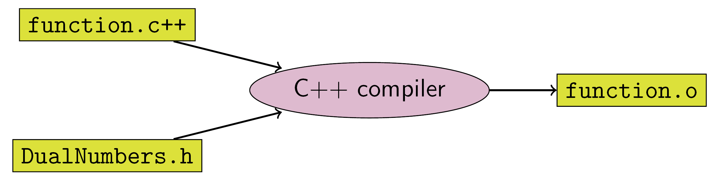 I made this using TikZ, Beamer and LaTeX The figure displays how operator overloading in automatic differentiation could work.